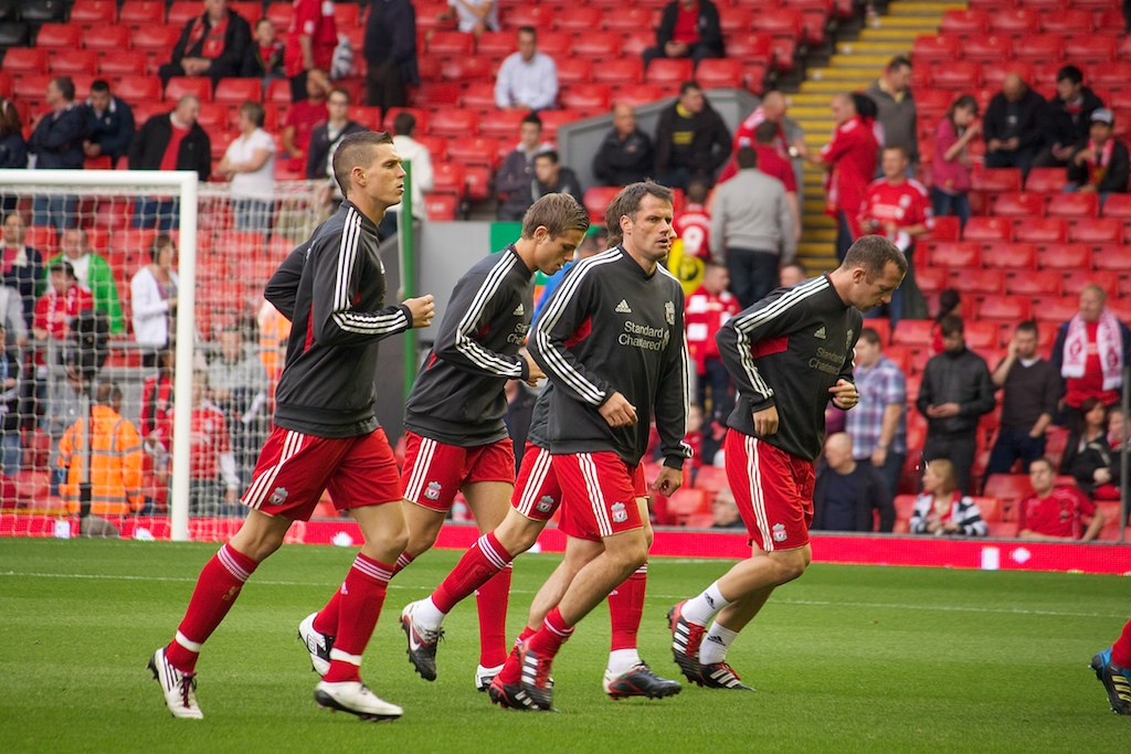 From left to right, Daniel Agger, Jordan Henderson, Jamie Carragher, Charlie Adam. Liverpool vs Bolton 27/08/2011